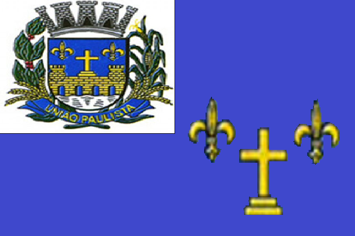 Flag of União Paulista, state of São Paulo, Brazil. This work is in the public domain in Brazil for one of the following reasons: It is a work published or commissioned by a Brazilian government (federal, state, or municipal) prior to 1983.(Law 3071/1916, art. 662; Law 5988/1973, art. 46; Law 9610/1998, art. 115) It is the text of a treaty, convention, law, decree, regulation, judicial decision, or other official enactment.(Law 9610/1998, art. 8) This image shows a flag, a coat of arms, a seal or some other official insignia. The use of such symbols is restricted in many countries. These restrictions are independent of the copyright status.